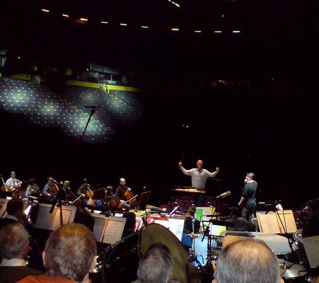 Nessun Dorma In a rehearsal for the Raymond Gubbay Classical Spectacular at the Manchester Evening News Arena. The tenor John Hudson sings Puccini's Nessun Dorma from the opera Turandot, accompanied by conductor John Rigby, the Halle Orchestra and the ladies of Leeds Festival Chorus.